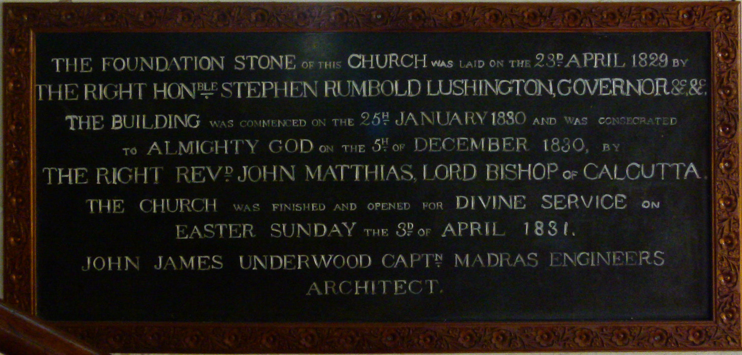 Door of St. Stephens Church in Ootacamund, India